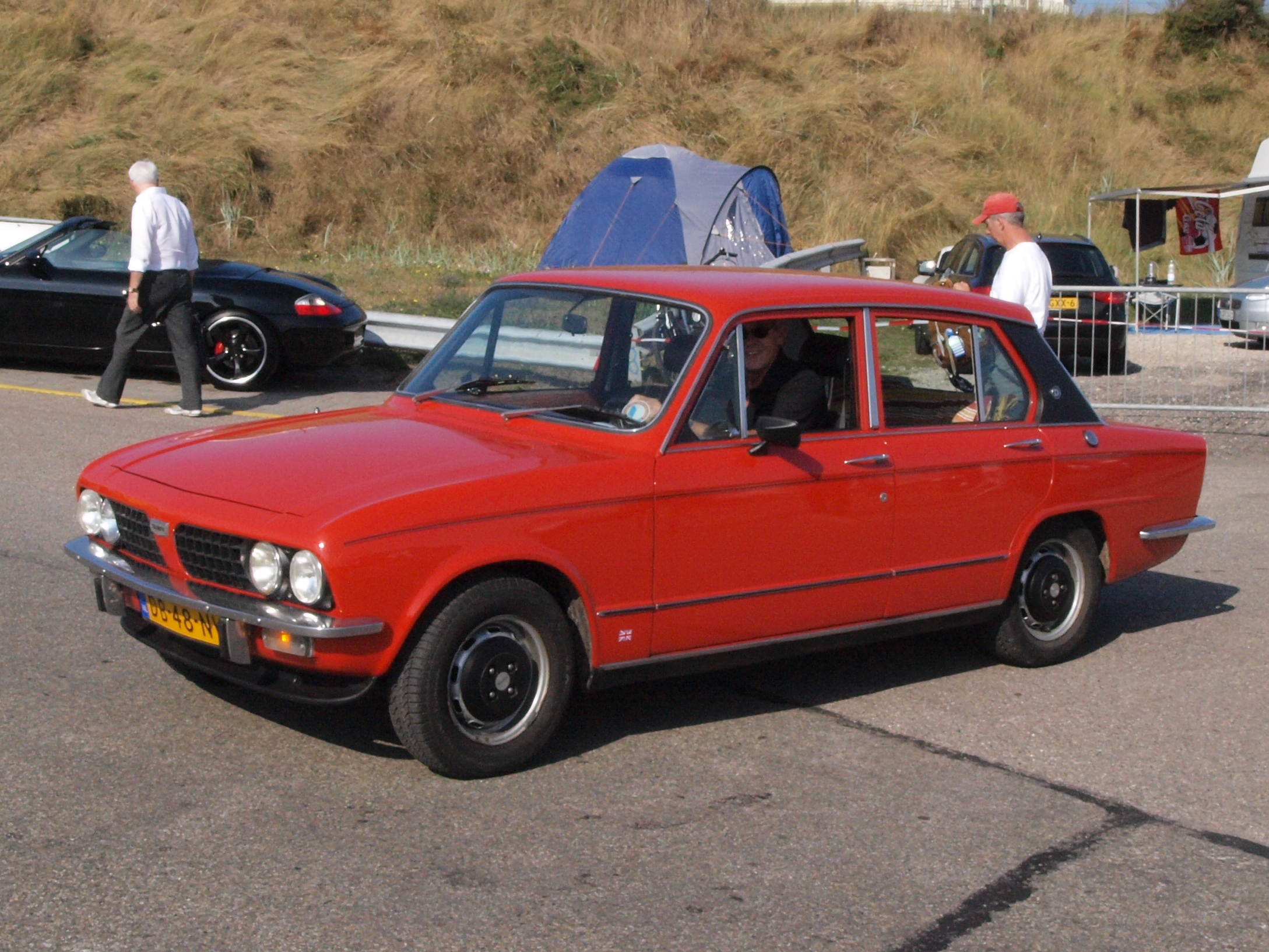 Photographed at the Nationaal Oldtimer Festival Zandvoort 2009, The Netherlands. OLYMPUS DIGITAL CAMERA